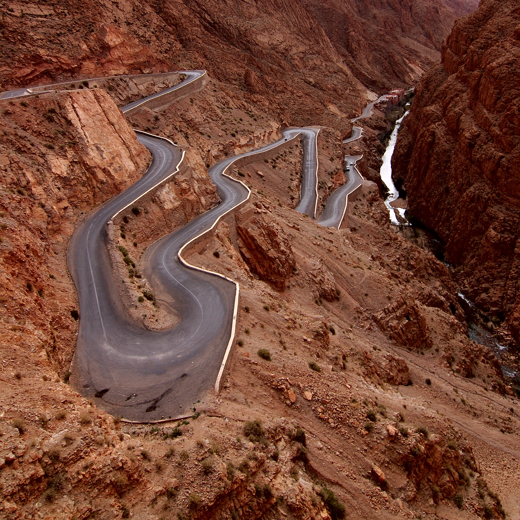 Mountain pass in Dadès Gorges, High Atlas, Morocco